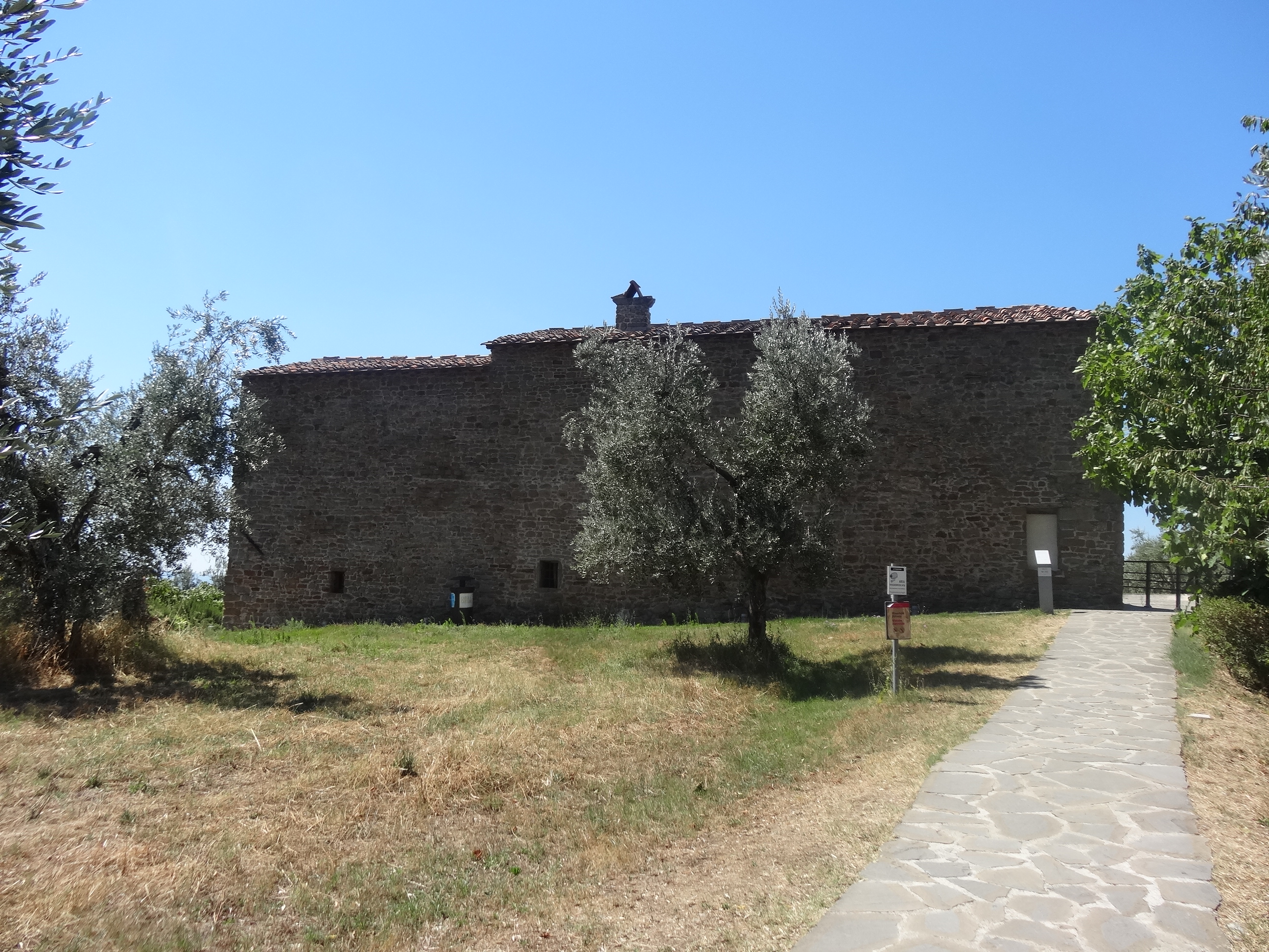 Birthplace of Leonardo da Vinci in Anchiano